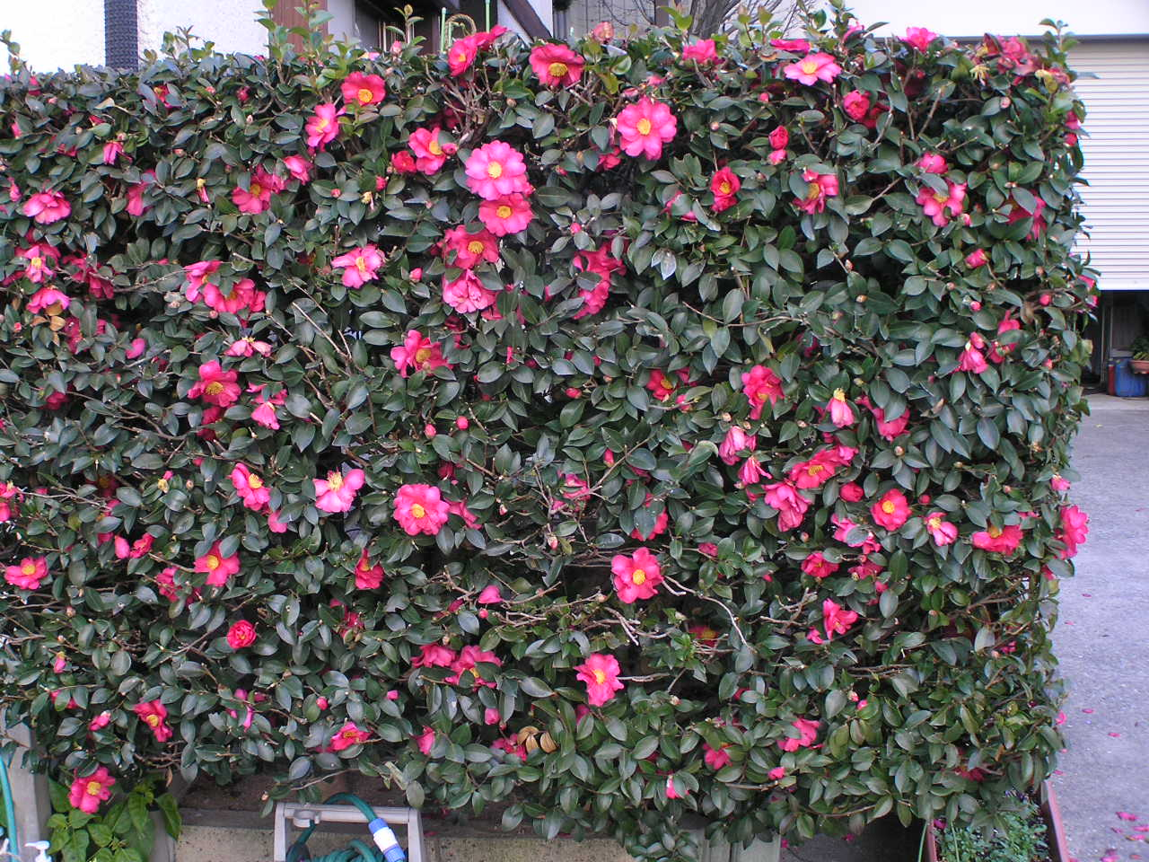 Camellia sasanqua1065947サザンカ,山茶花